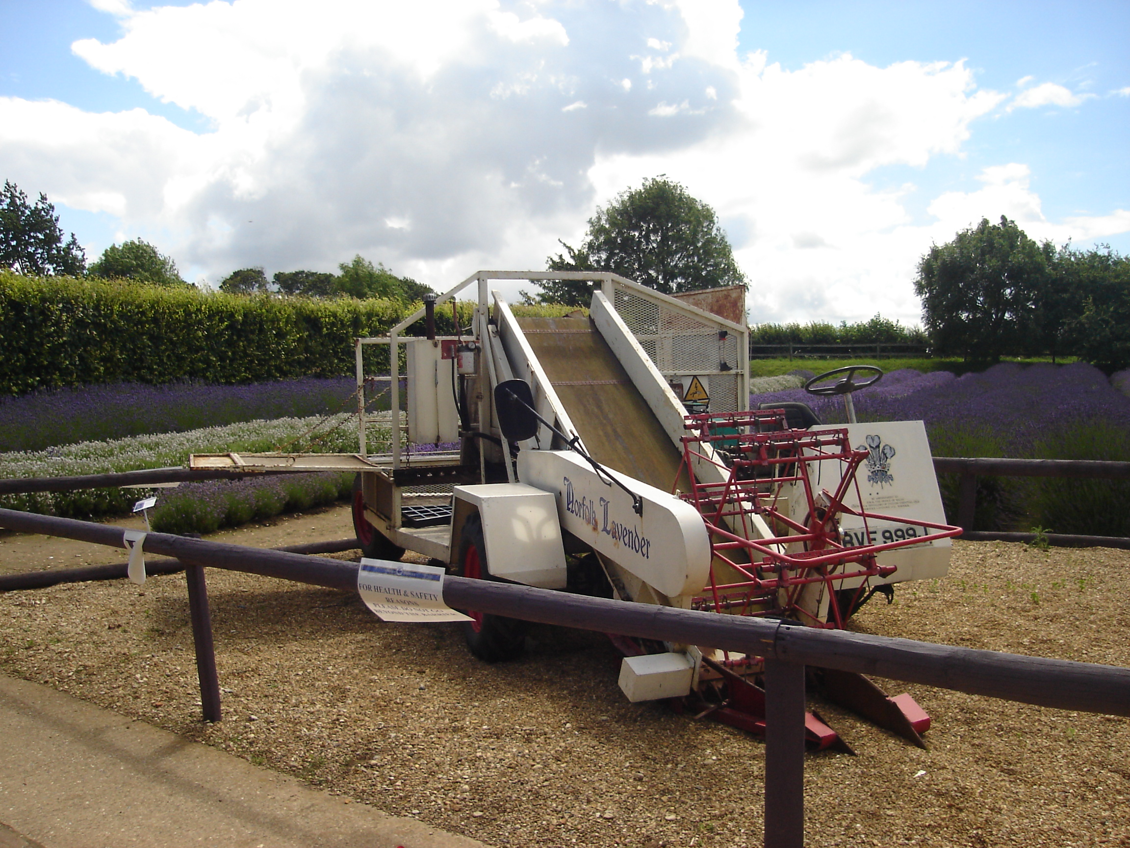 Picture of a lavender harvesting machine in the lavender fields at Heacham, Norfolk, England